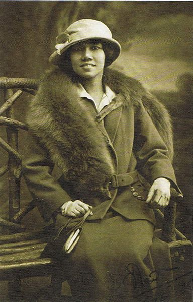 Her Royal Highness Princess Valaya Alongkorn